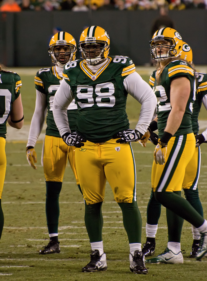 Chicago Bears vs. Green Bay Packers at Lambeau Field on December 25, 2011. Photo by Mike Morbeck.